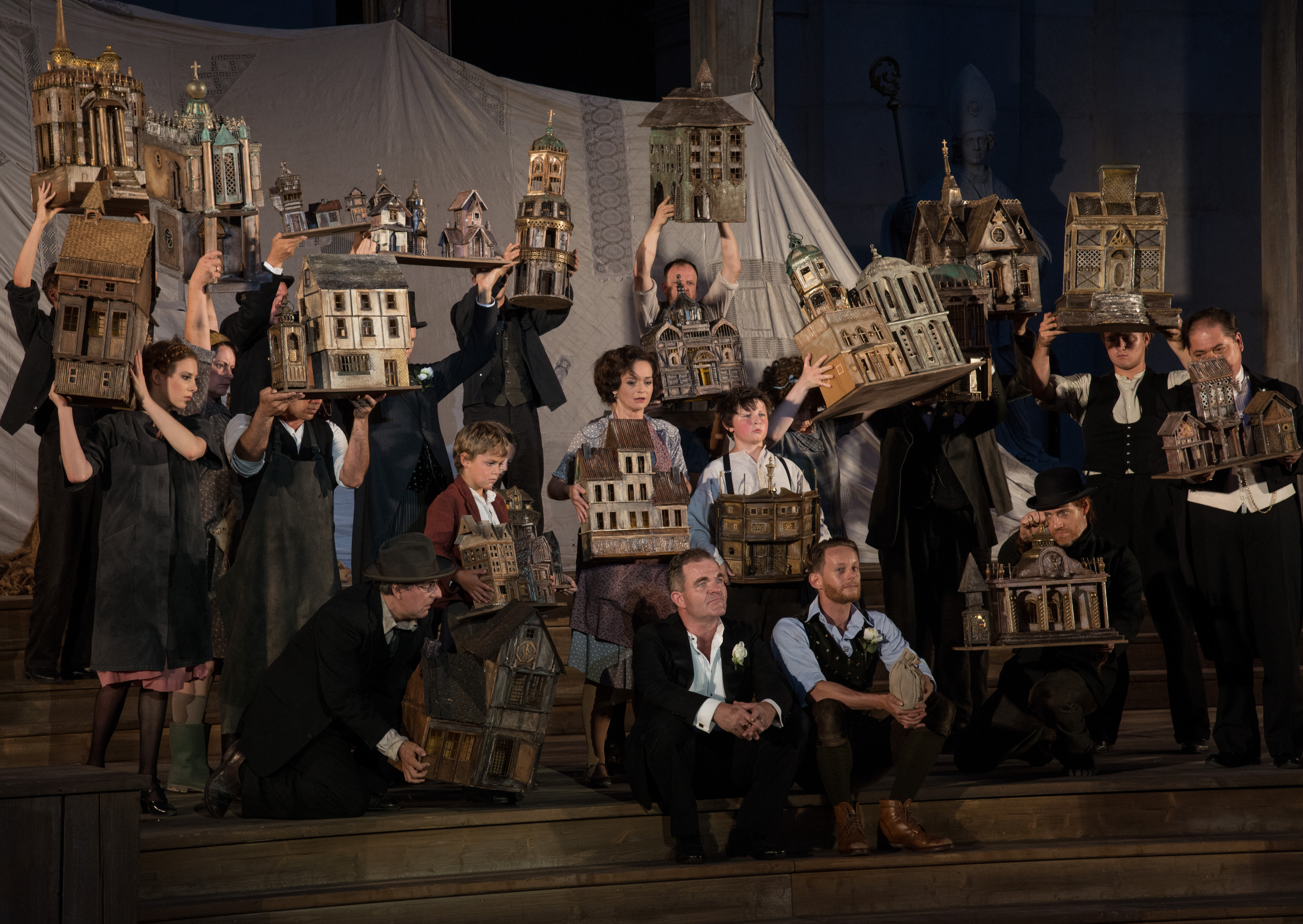 Jedermann, Salzburg Festival 2014